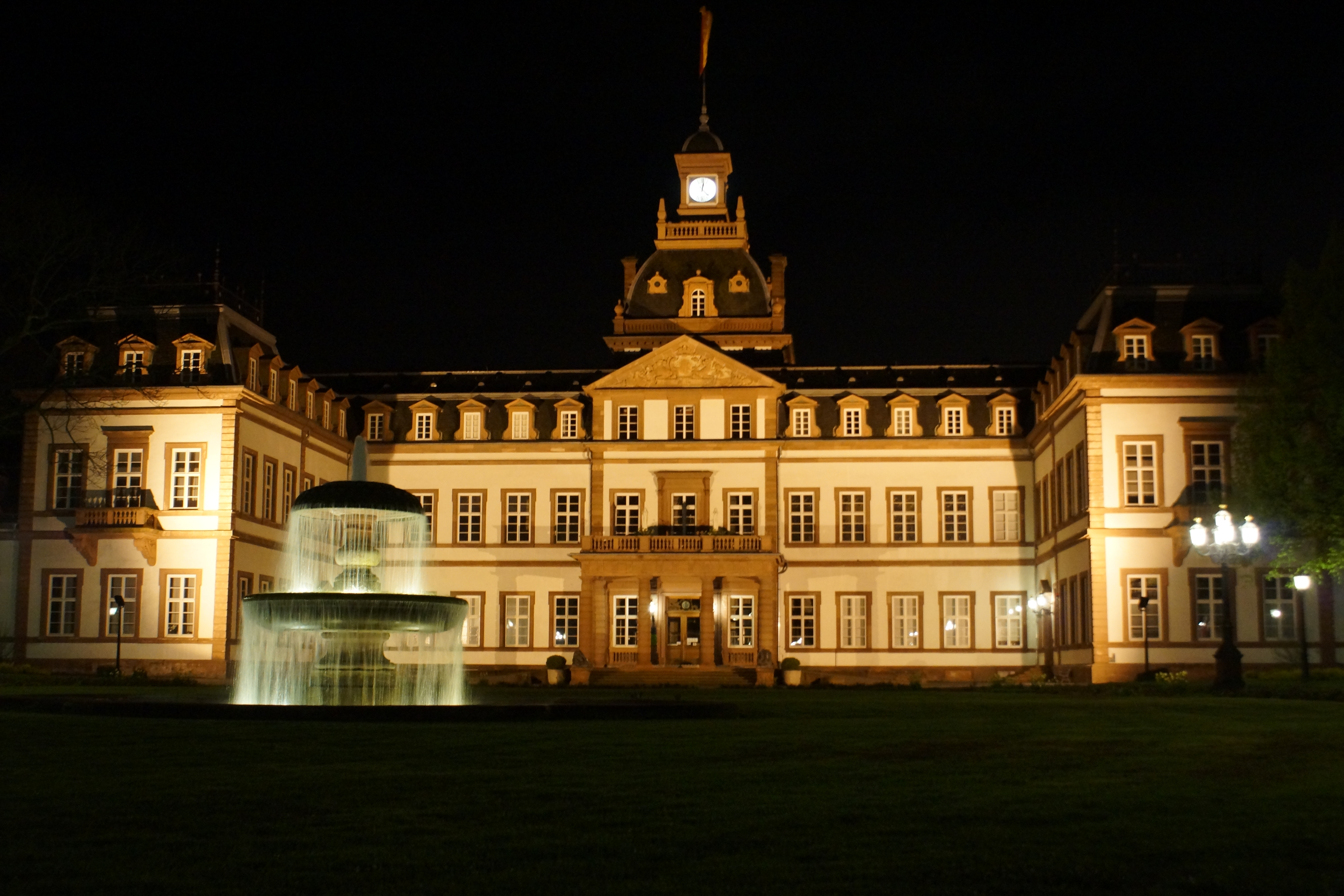 Philippsruhe palace in Hanau, Germany, at night (2012)